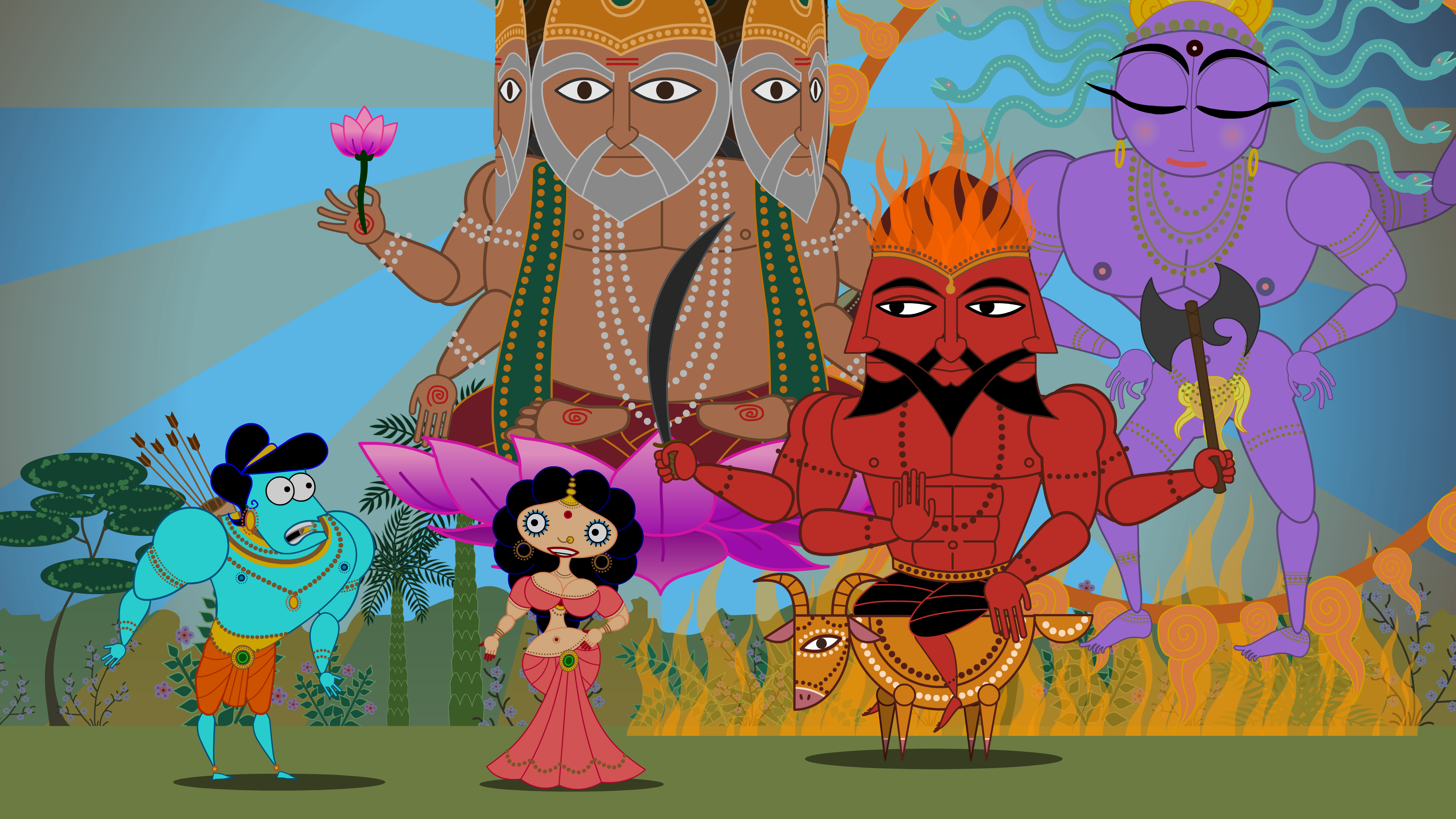 Gods Brahma, Agni and Shiva attest to Sita's purity while Rama looks on in shock. Still from Sita Sings the Blues by Nina Paley.